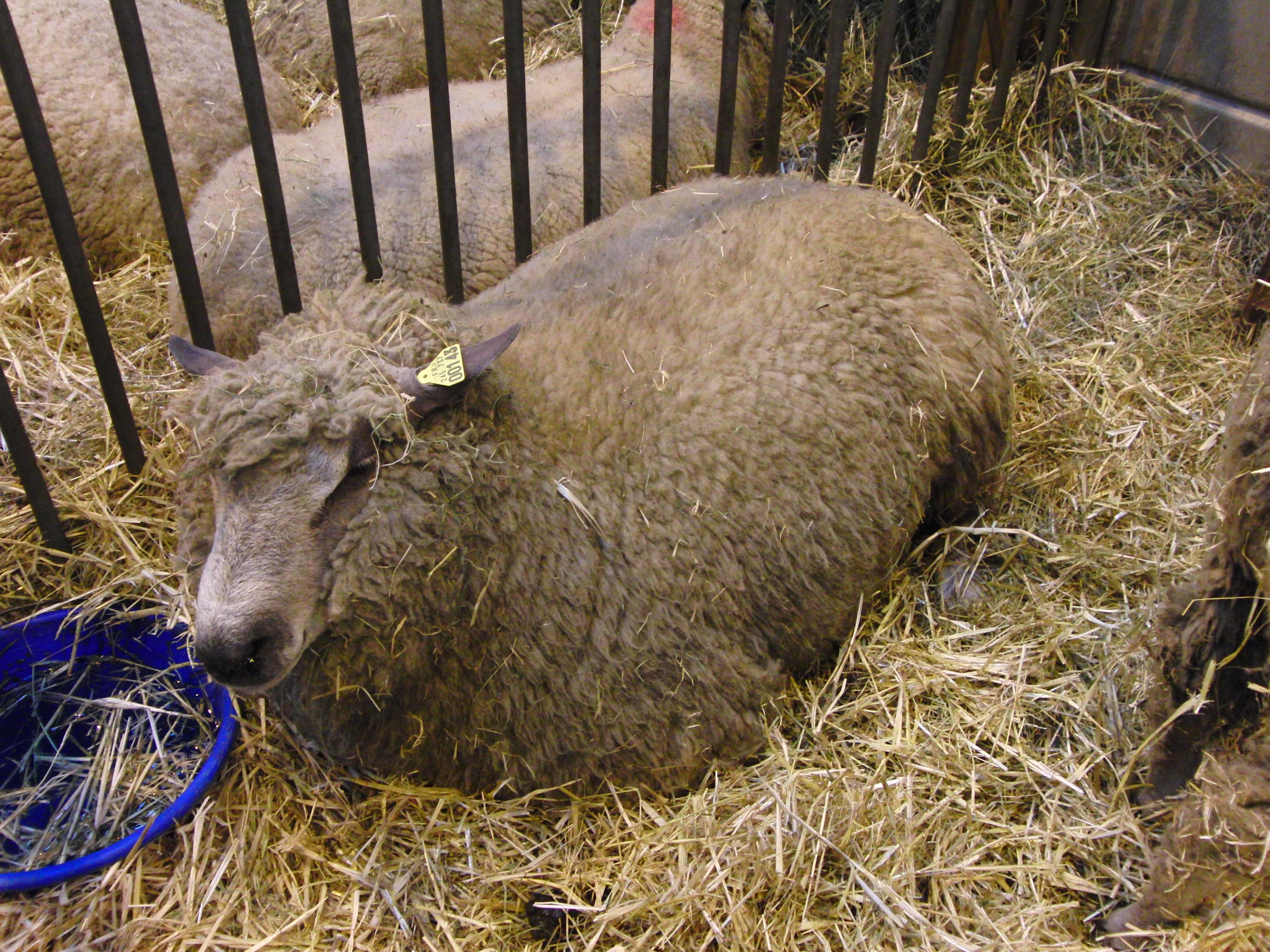 Avranchin sheep - Paris International Agricultural Show 2012, Paris, France